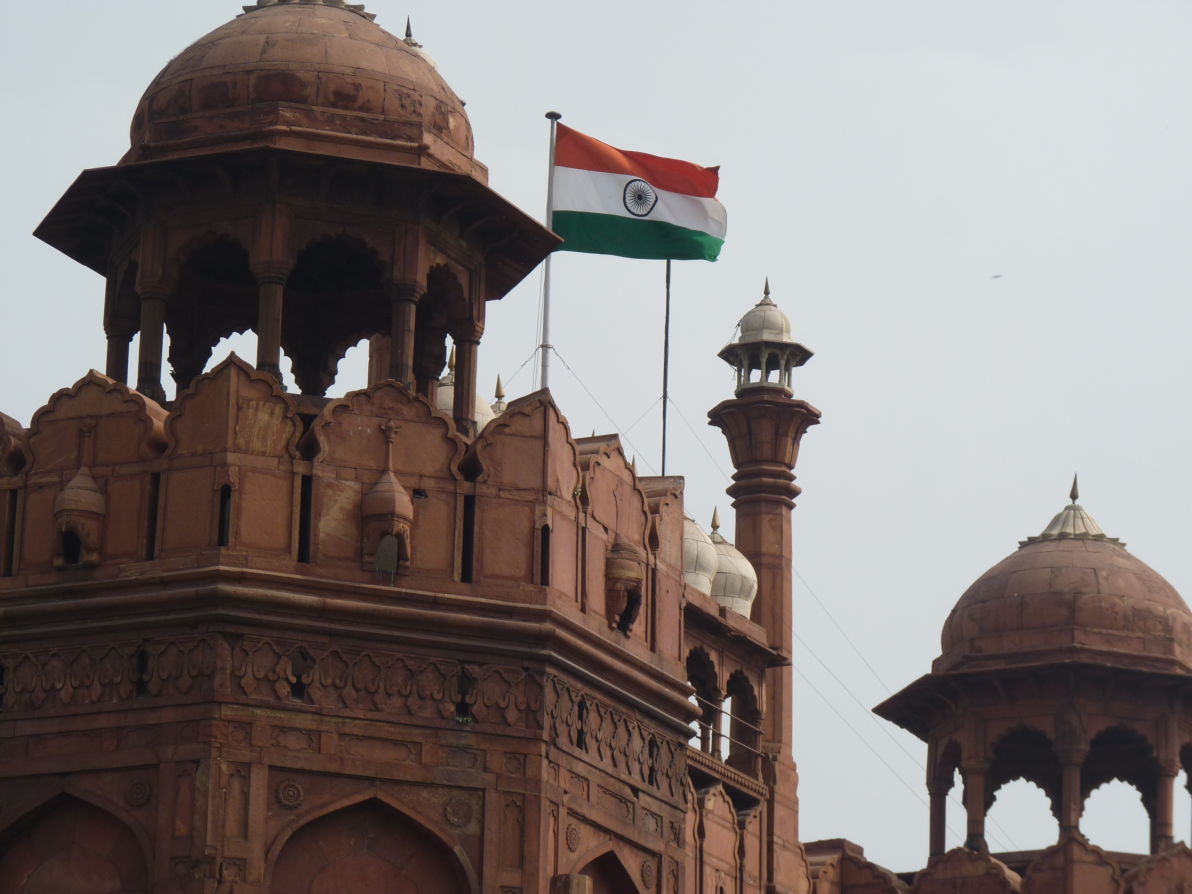 Waving Indian Flag At Red Fort